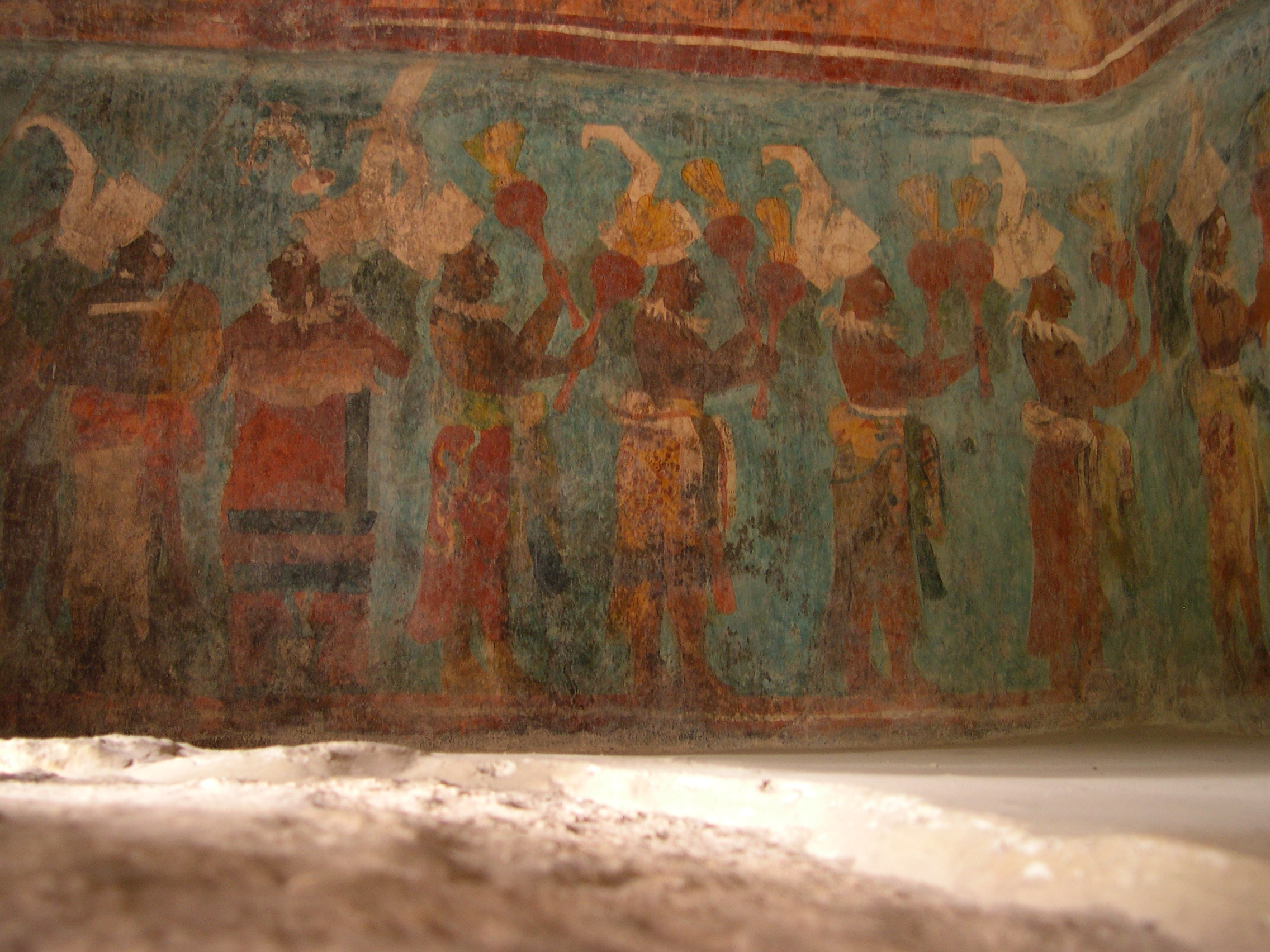 A picture of one of the paintings at Bonampak Photo © 2004 Jacob Rus